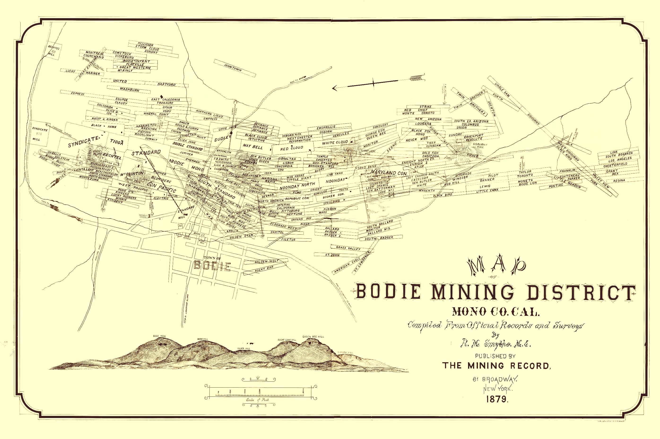 Smythe, R. M. (Roland Mulville), b. 1855. Map of Bodie Mining District : Mono Co., Cal. [Sheet 1]., Map, 1879; ( : accessed March 04, 2016), University of North Texas Libraries, The Portal to Texas History, crediting University of Texas at Arlington Library, Arlington, Texas. Smythe, R. M. (Roland Mulville), b. 1855. Map of Bodie Mining District : Mono Co., Cal. [Sheet 2]., Map, 1879; ( : accessed March 04, 2016), University of North Texas Libraries, The Portal to Texas History, crediting University of Texas at Arlington Library, Arlington, Texas.